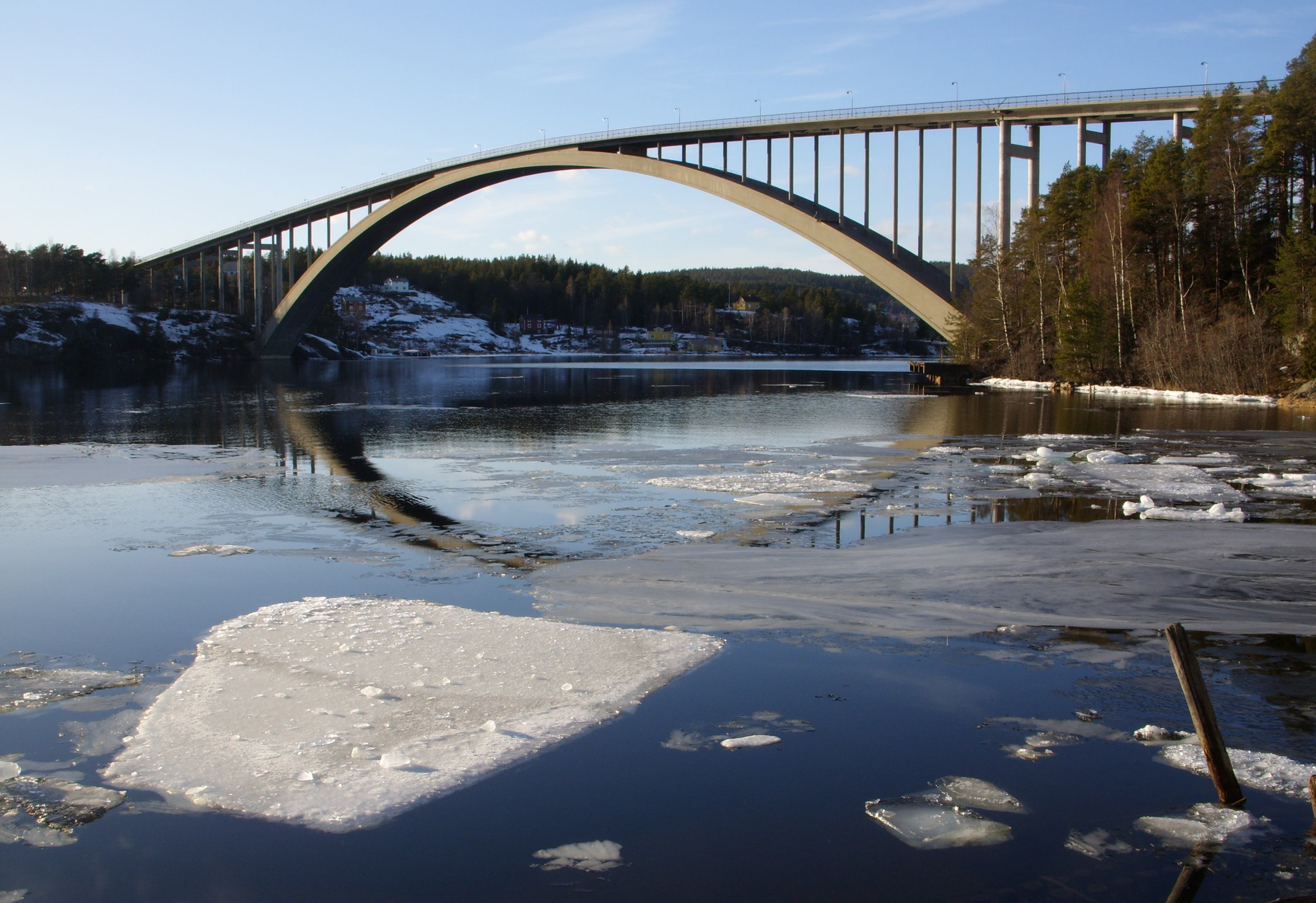 A picture of Sandö Bridge in Sweden taken in February together with ice floes on the river.